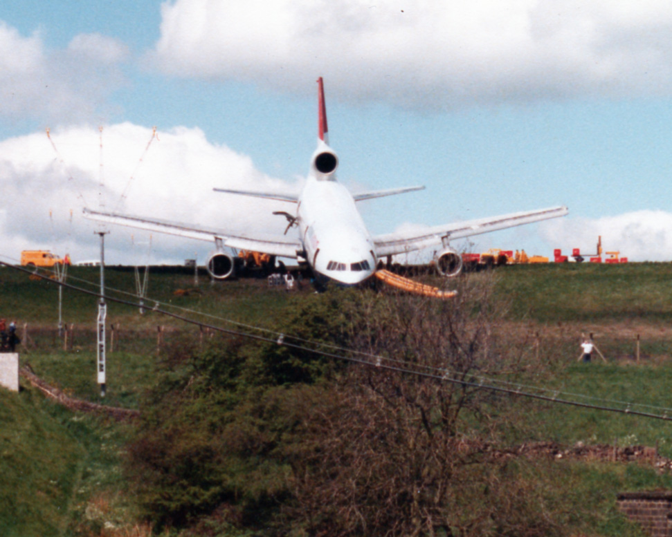 Tristar (L1011) resting at end of runway 14 at LBIA having failed to stop